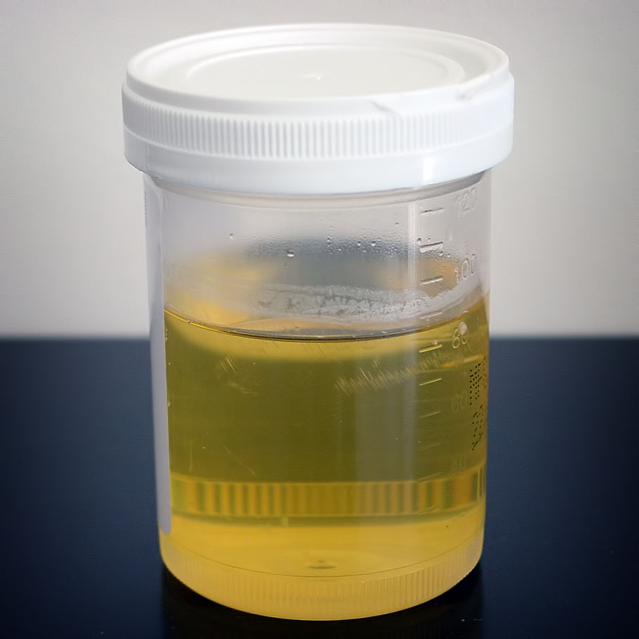 human urine in specimen container